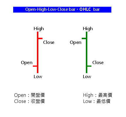 Open-High-Low-Close bar